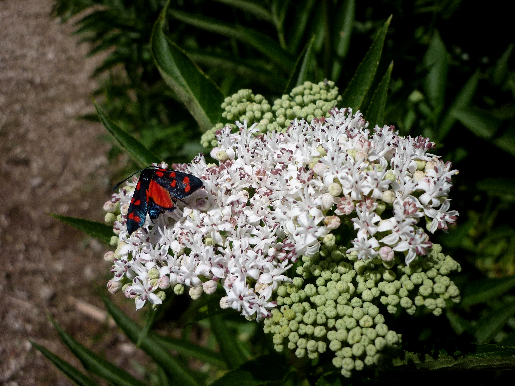 Sambucus ebulus. In la Bòfia, Odèn (Solsonès - Catalunya). To 1.760 m. altitude